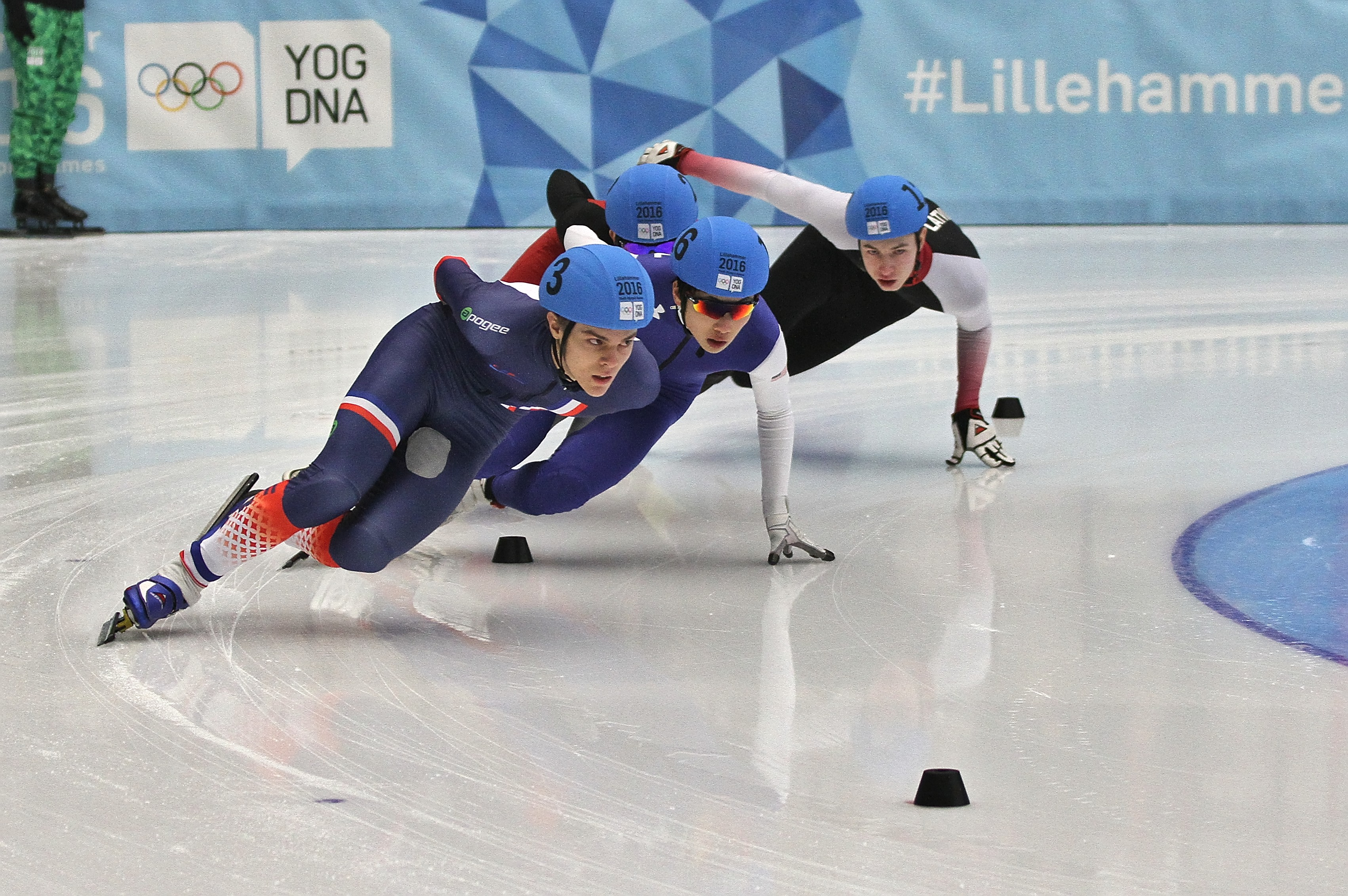 Lillehammer 2016 Short track Speed Skating: Men's 1000m Quarterfinal 1